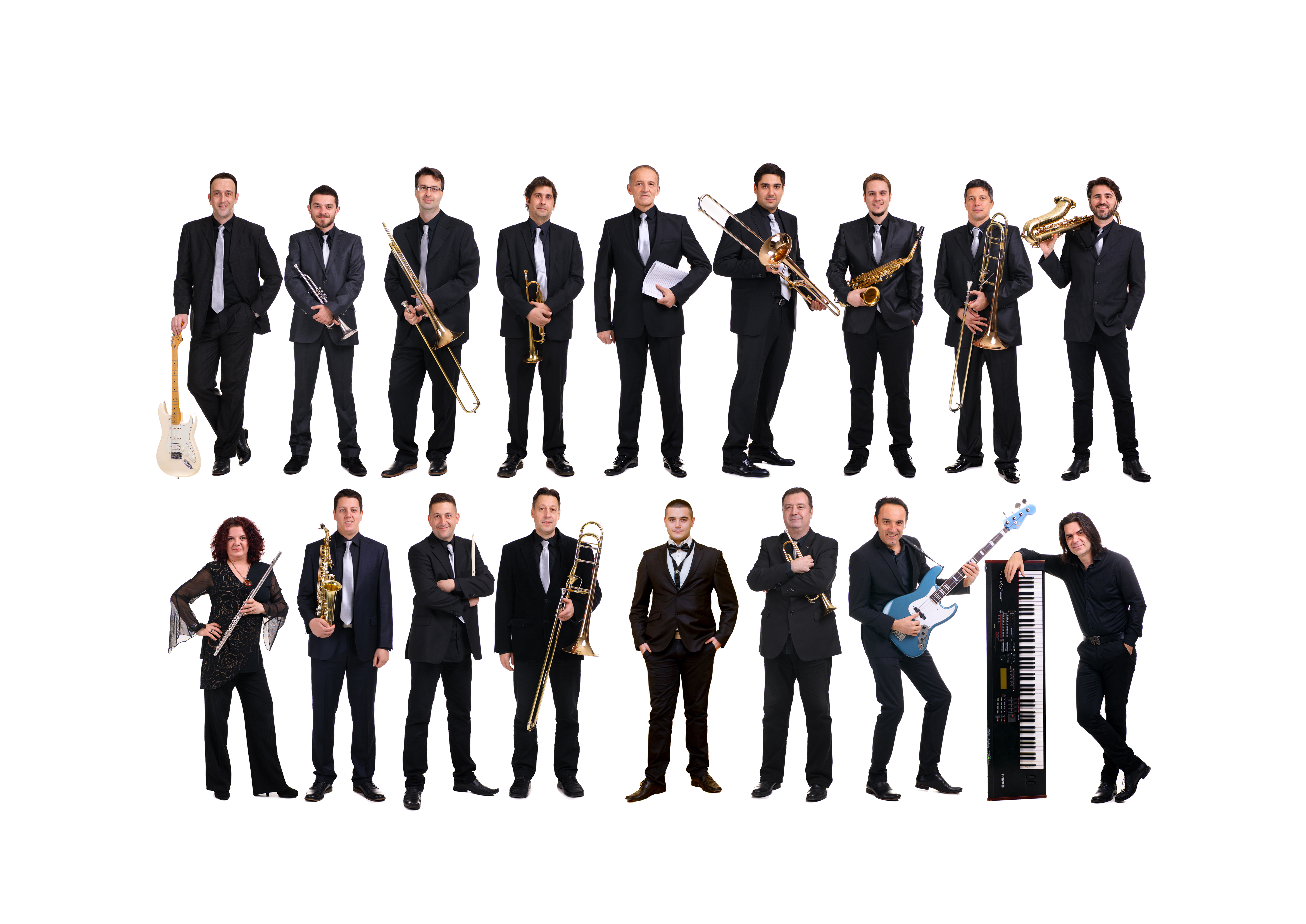 Novosadski big band 2017 foto